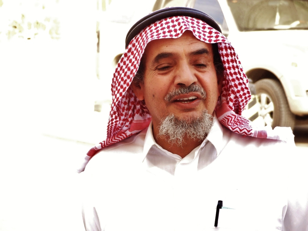 Abdullah al-Hamid after the fifth trial session.